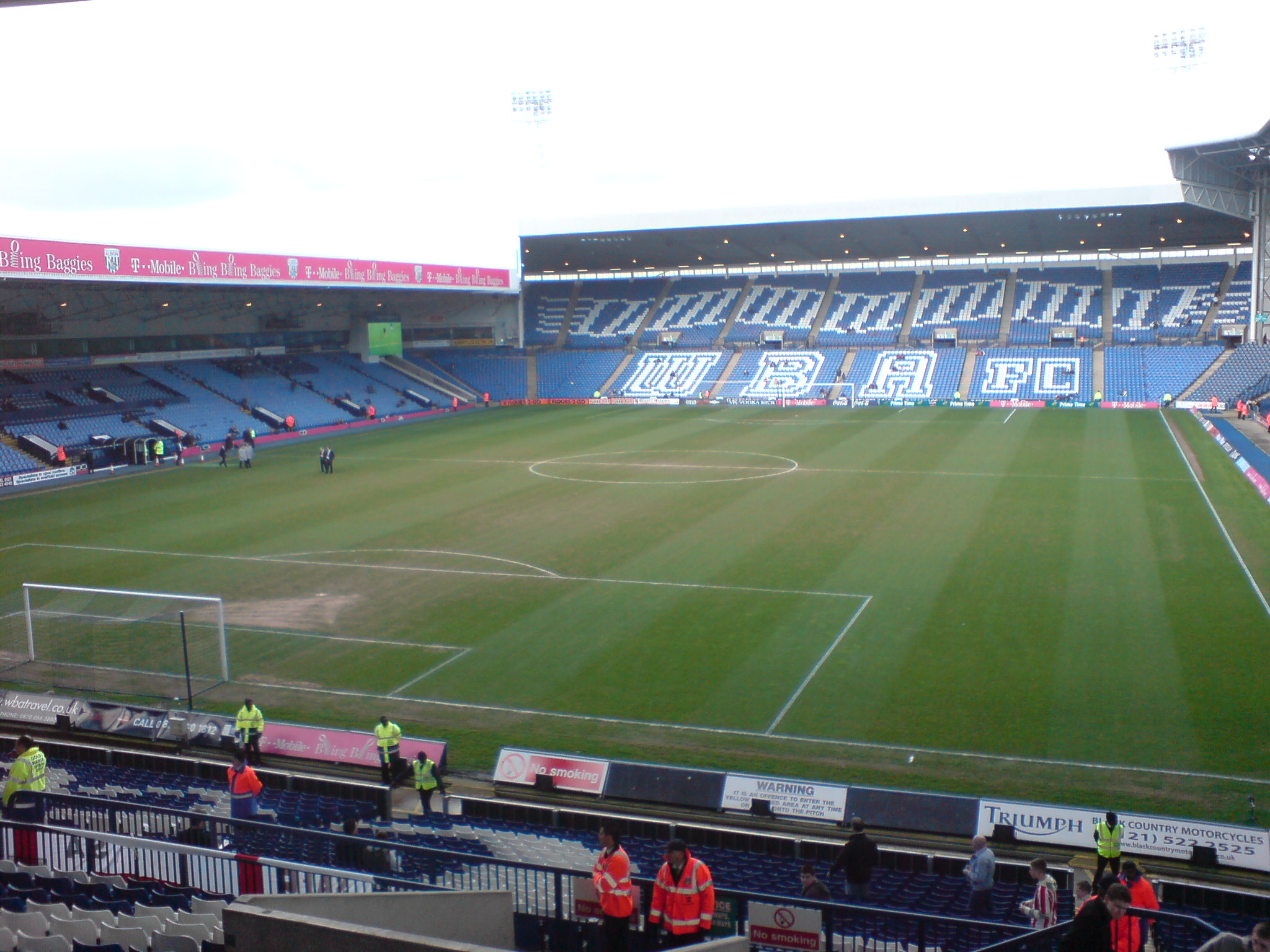 Self-taken photo of The Hawthorns prior to WBA's 2-1 home defeat to Sunderland.